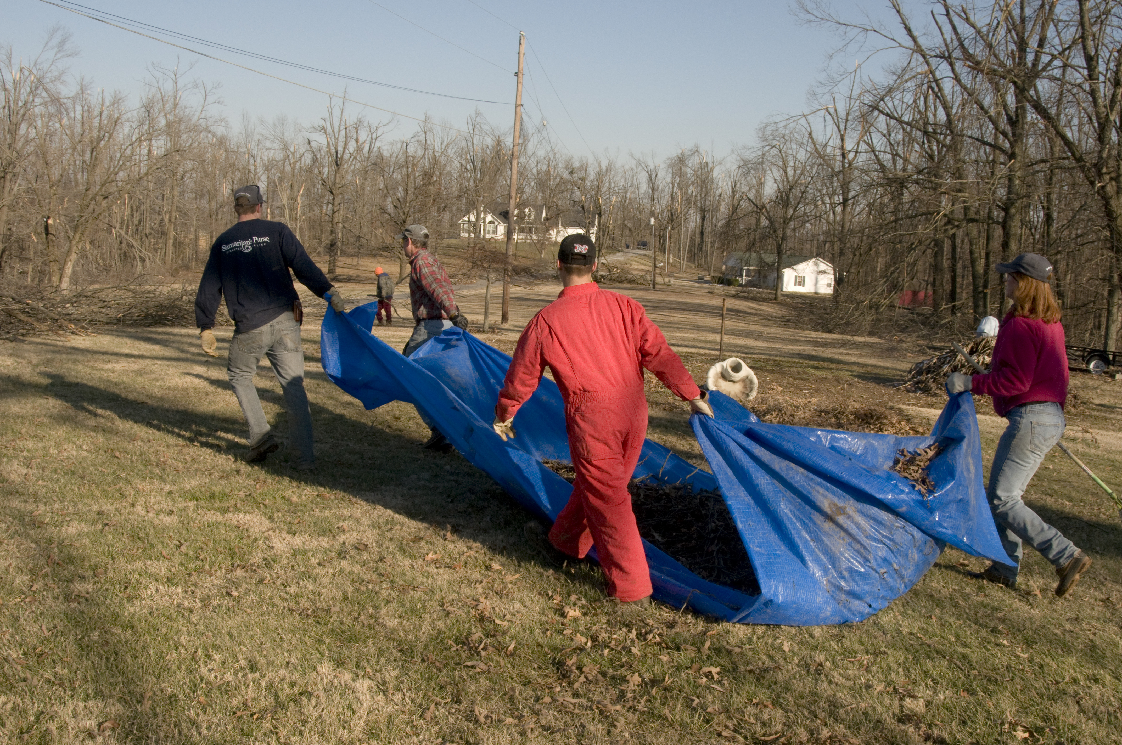 Madisonville, KY, February 23, 2009 -- Volunteers from Samaritan's Purse aid elderly homeowners in removing debris that fell after the January 27th ice storm. Photo by Liz Roll/FEMA